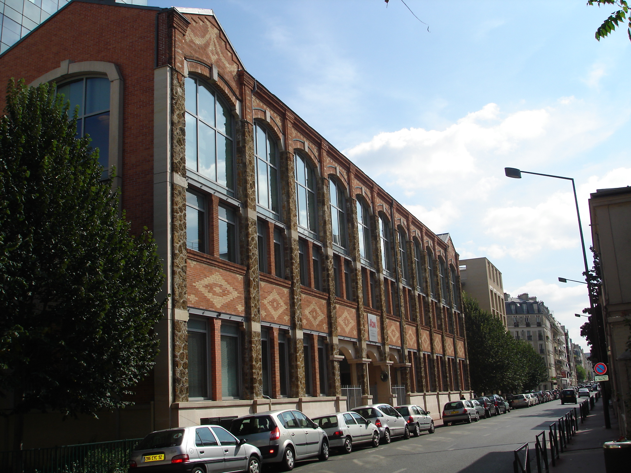 Biscuit factory, built in 1894-1900 rue Anatole France in Levallois-Perret, suburb of Paris. After been transformed ina constabulary, it has been renovated and is used now as offices.